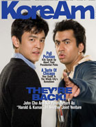 Magazine cover of KoreAm from March 2008 issue featuring John Cho and Kal Penn.